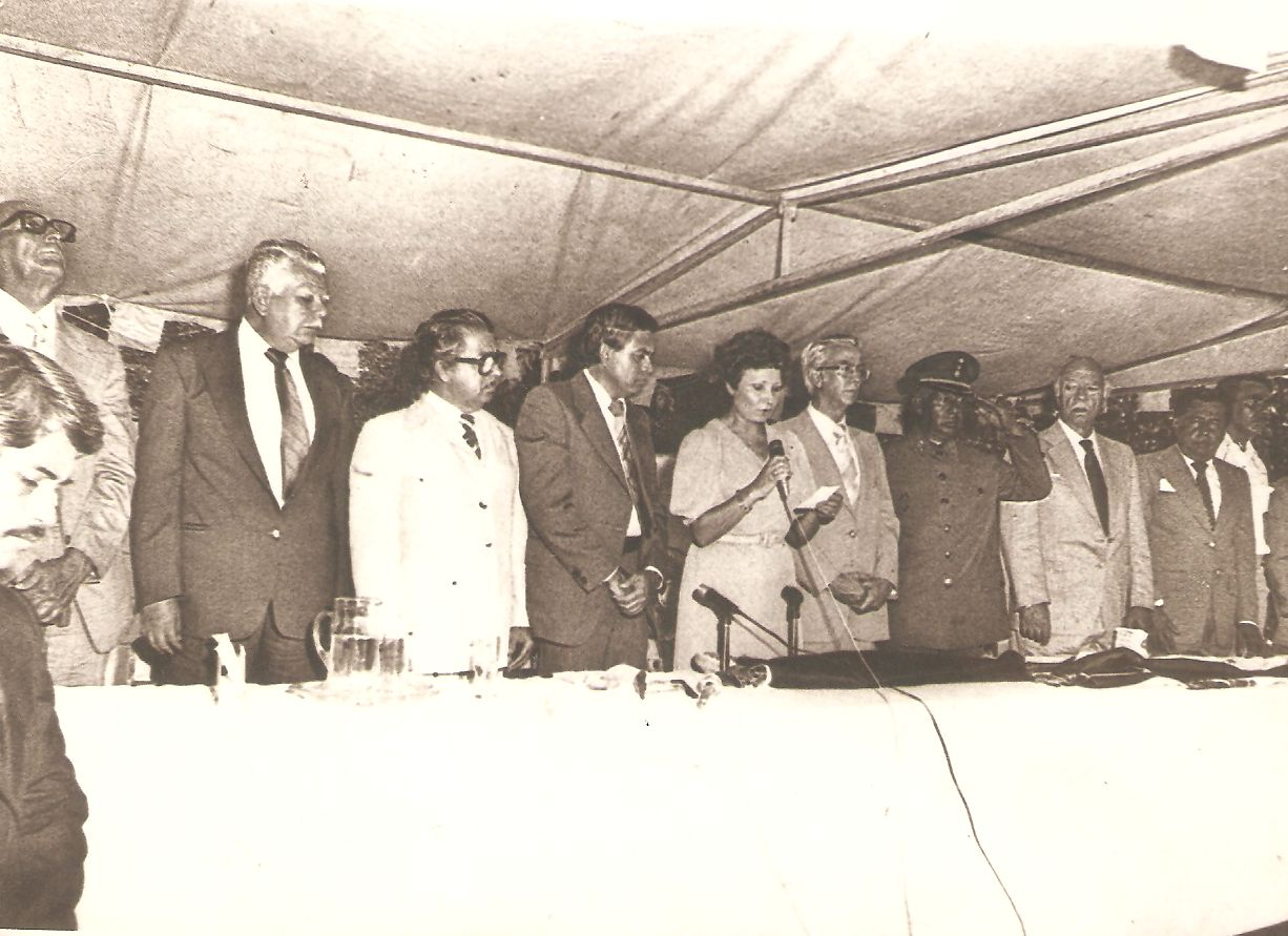 Presentación de libros y revistas U de O.